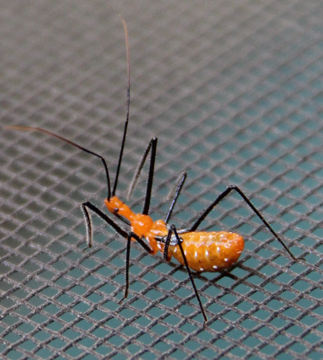 Zelus Longipes (Milkweed Assassin Bug)